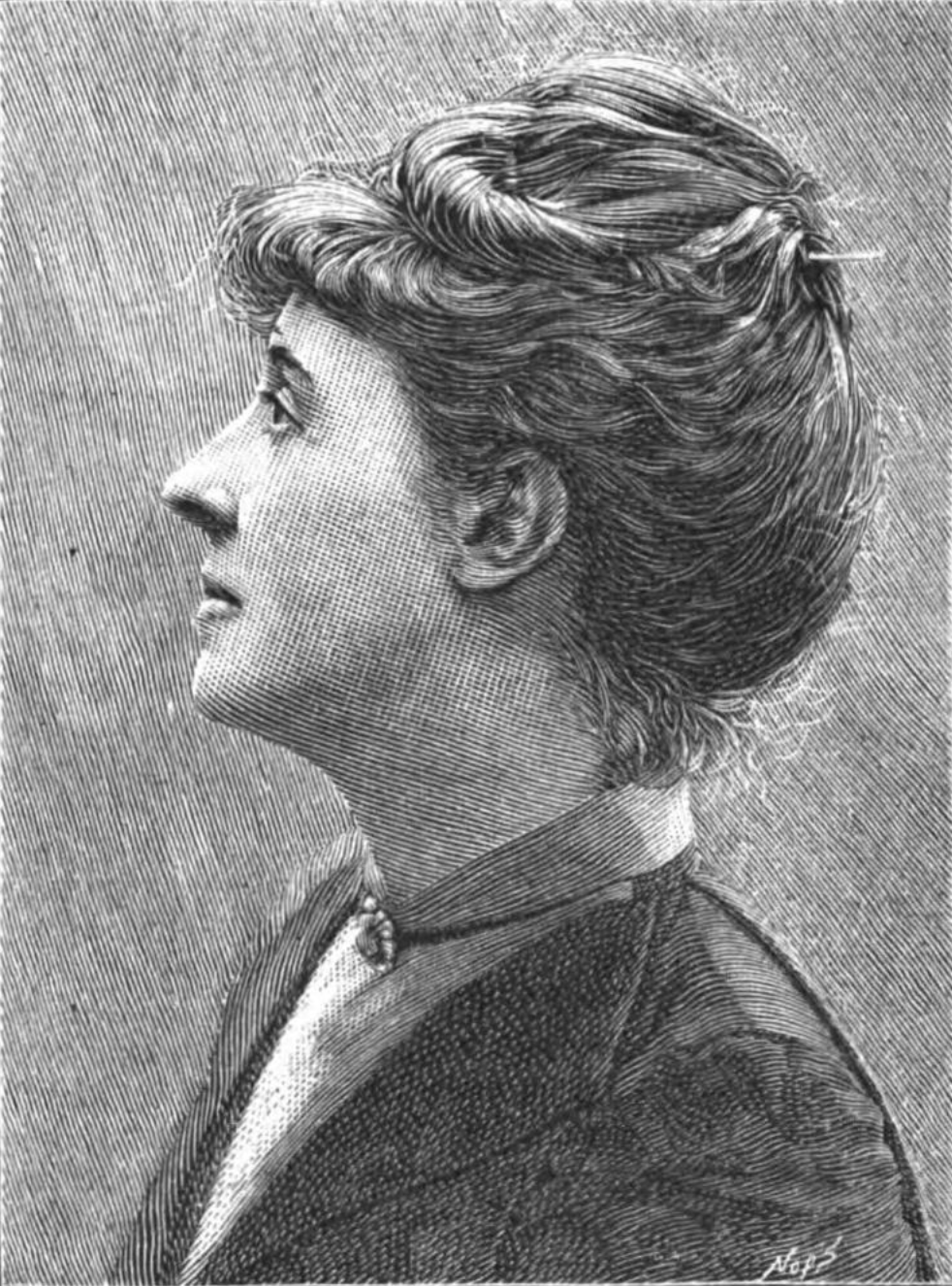 From a photograph by Mr. H. S. Mendelssohn